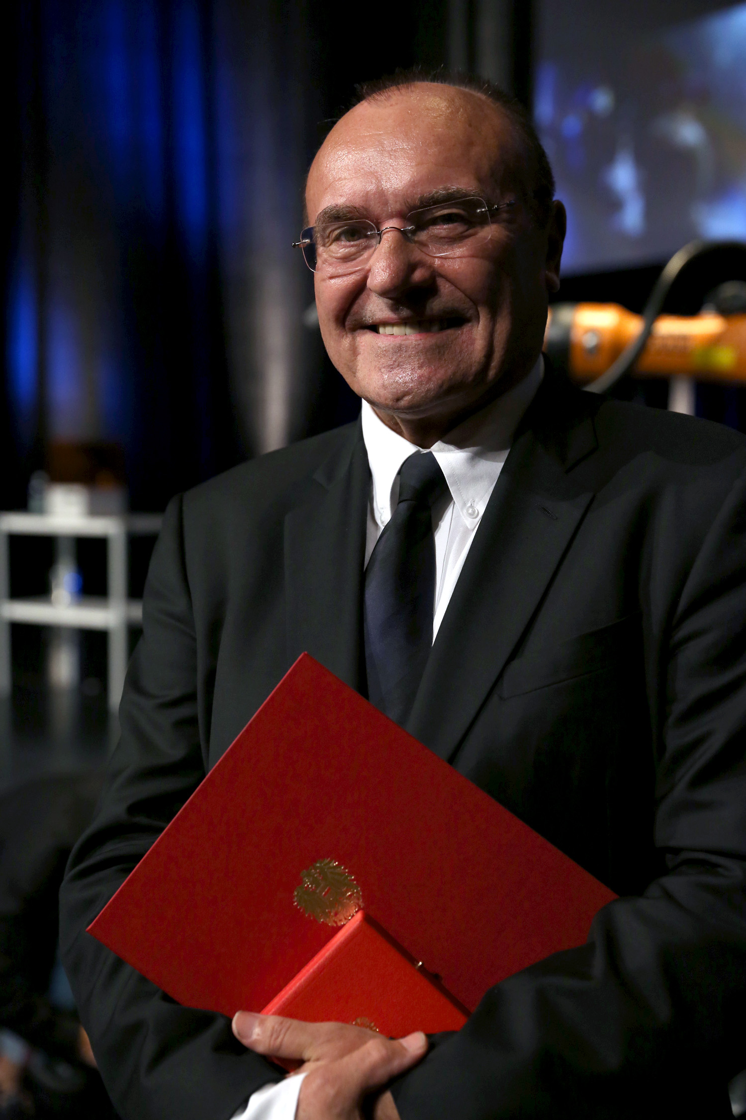 Hannes Leopoldseder with the Grand Decoration of Honour of the Republic of Austria, Prix Ars Electronica 2013 at Brucknerhaus, Linz, Upper Austria.